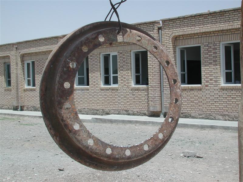 An old tyre rim serves as a bell in a reconstructed school in Herat, western Afghanistan